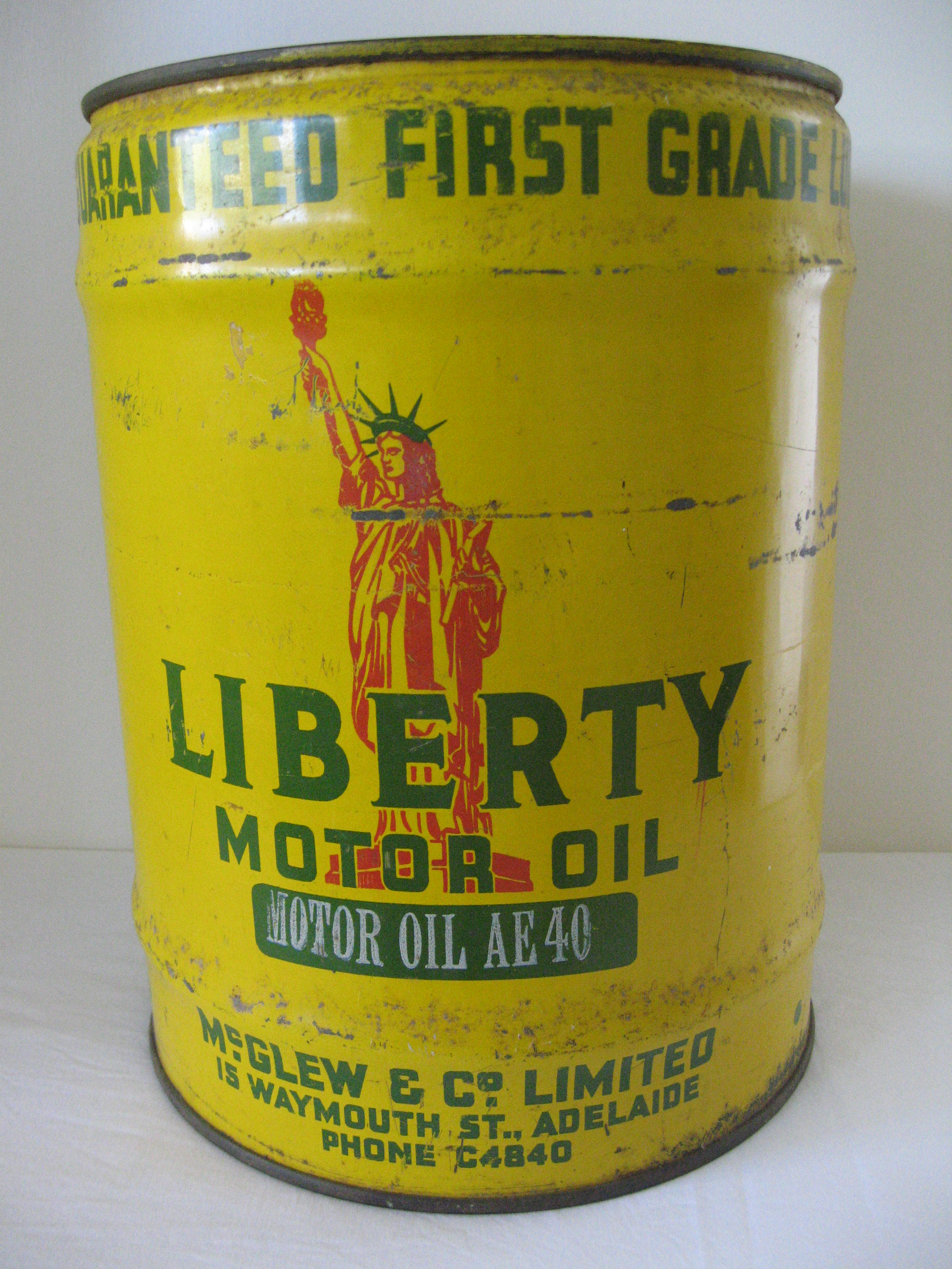 LIBERTY MOTOR OIL CAN, 4 gallon (20 litre), vintage circa 1931, which contained ‘Motor Oil AE40. Liberty guaranteed first grade lubricant’. The proprietor of Liberty Oils was McGLEW & CO. LIMITED, 15 Waymouth Street, Adelaide, South Australia. The can manufacturer (stamped on base) was ‘SIMPSON ADELAIDE’. This VARY RARE can advertises “Liberty oils for every use: Liberty Motor Oils, Liberty Agricultural Oils, Liberty Tractor Oils, Liberty Industrial Oils, Liberty Deisel Oils. Liberty Greases for every purpose.” McGlew & Co. Limited was incorporated at Adelaide, on 16 February 1924, the chairman being Charles Thomas McGlew (1870-1931), merchant and importer, and an A.I.F. veteran of WWI (27th Battn). In the late 1920’s the company were Australian agents for the Atlantic Union Oil Company, leading to this can being produced c.1931, but because of McGlew’s death that year (from effects of gassing in the war) the company collapsed. The only advertising in Australia for Liberty Oil was for ‘Liberty Oil First Grade A’, during 1931-34, by Riedel Bros’ Motors, Renmark Avenue, Renmark, who were obviously selling remaindered stock, and sold out by 1934.